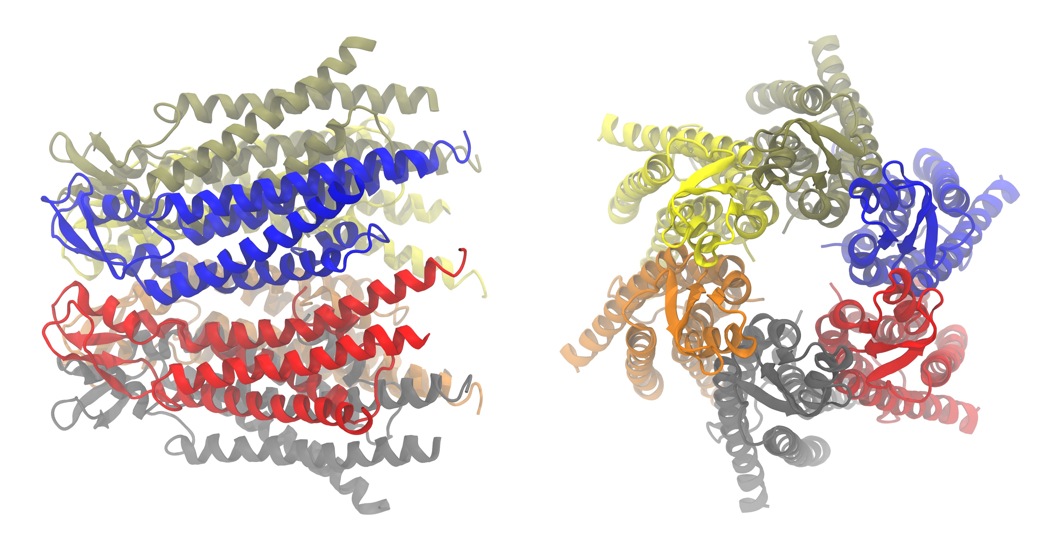 ribbon model of connexin Cx26 pore, after PDB 2ZW3. Ref.: Maeda S, Nakagawa S, Suga M, et al. (April 2009). "Structure of the connexin 26 gap junction channel at 3.5 A resolution". Nature 458 (7238): 597–602. PMID 19340074. This image was created with VMD